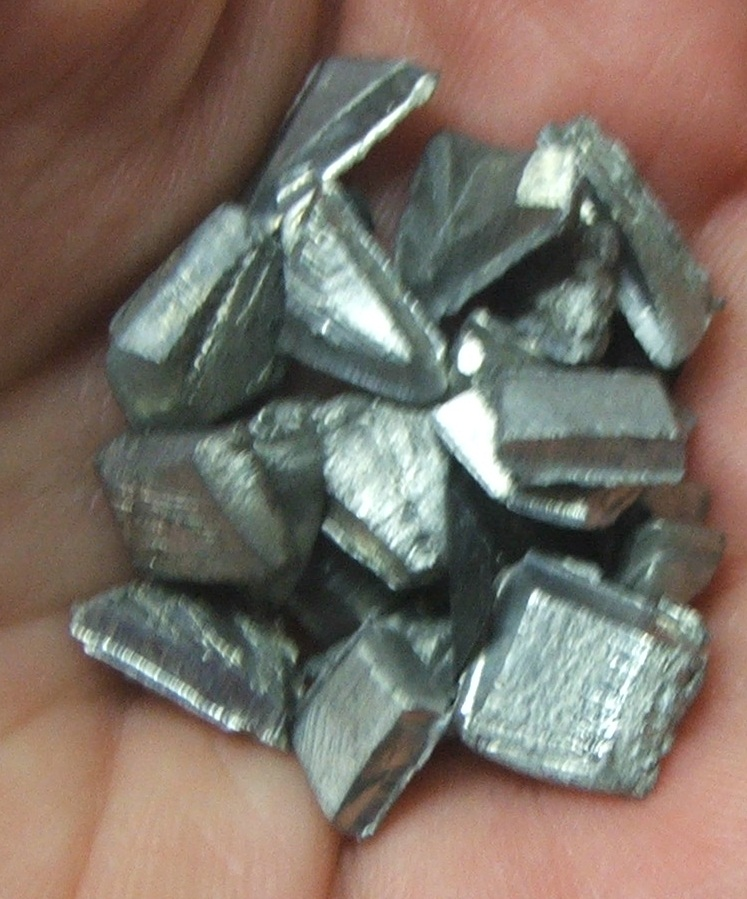 Chunk of pewter from a pewter spoon